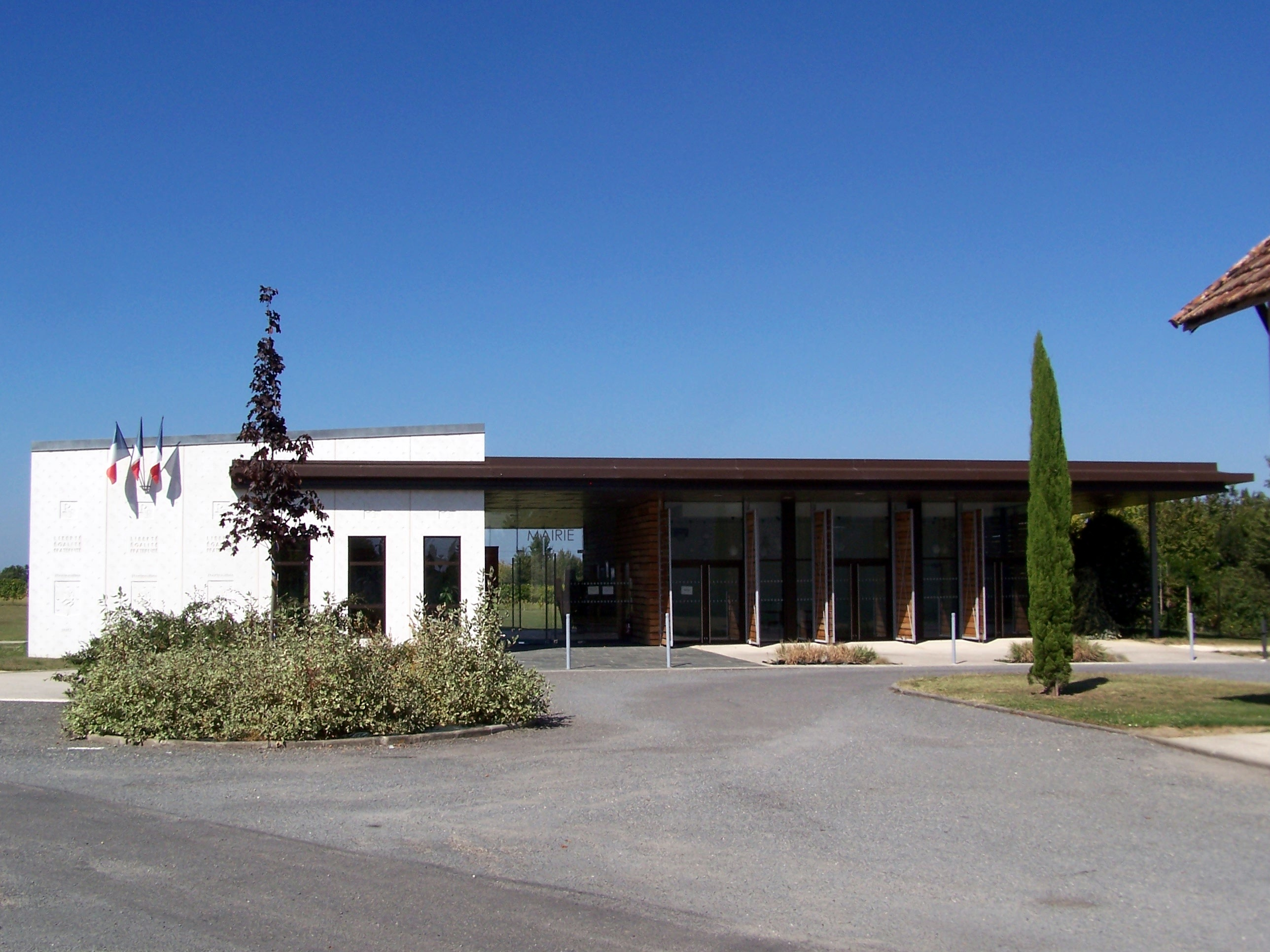 New town hall of Montpouillan (Lot-et-Garonne, France)